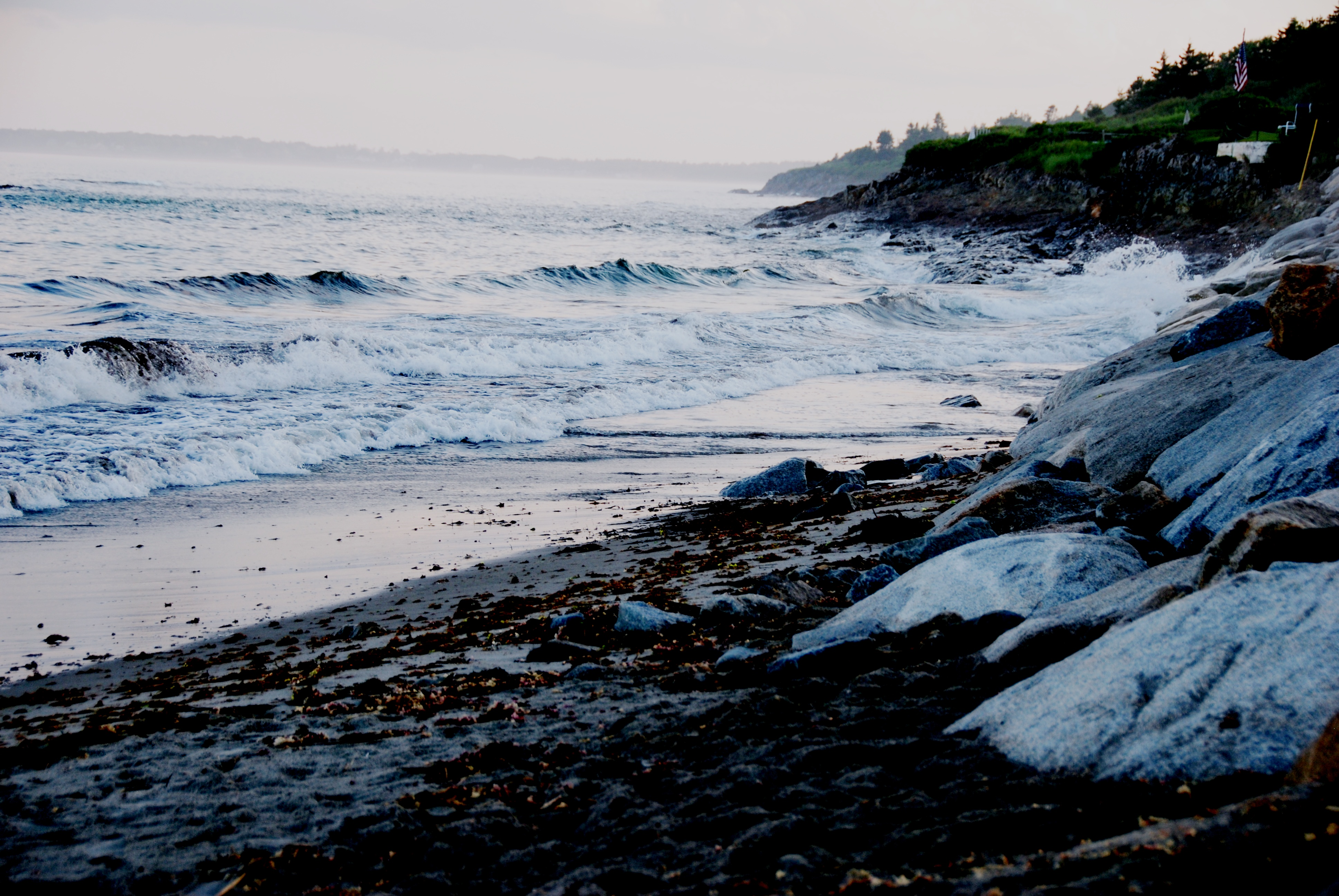 Looking South To Prout's Neck